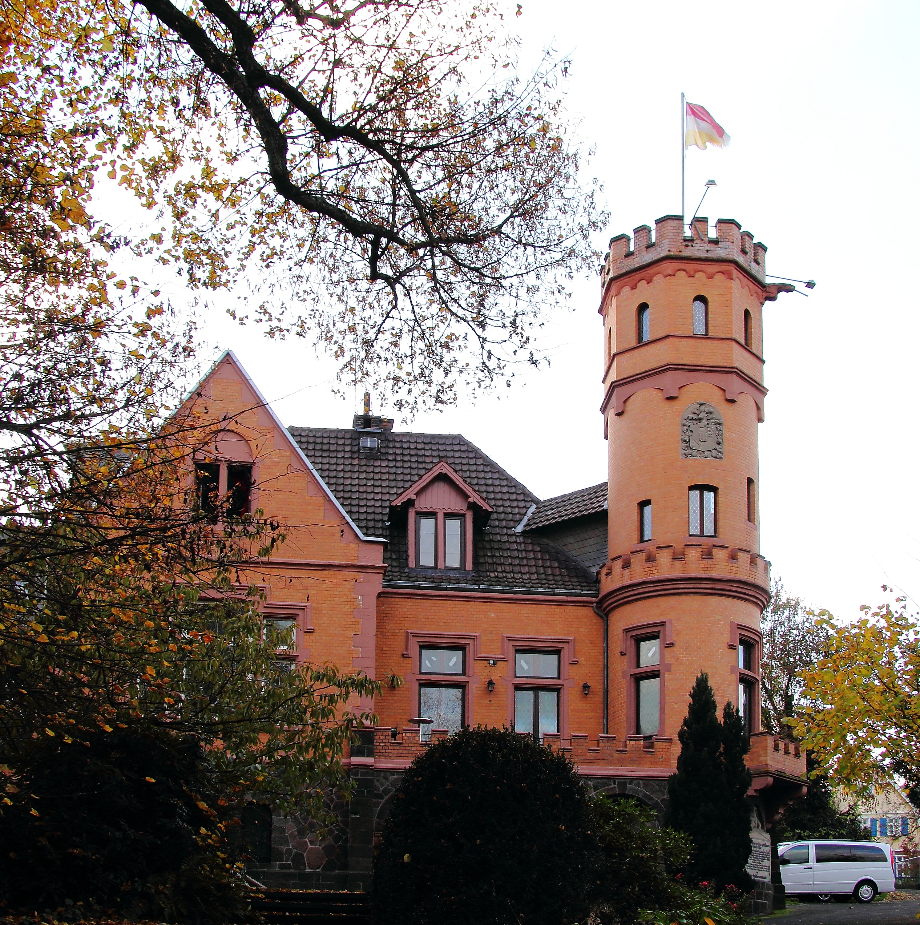 Giessen, Germany: House of student fraternity Corps Starkenburgia Giessen, Wilhelmstrasse 38, 35392 Giessen